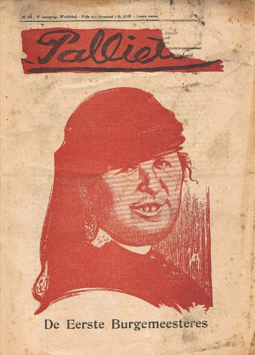 Léonie Keingiaert de Gheluvelt. Front page of the Flemish magazine Pallieter (1922-1928). All front pages were designed and illustrated by Jos De Swerts (1890-1939).